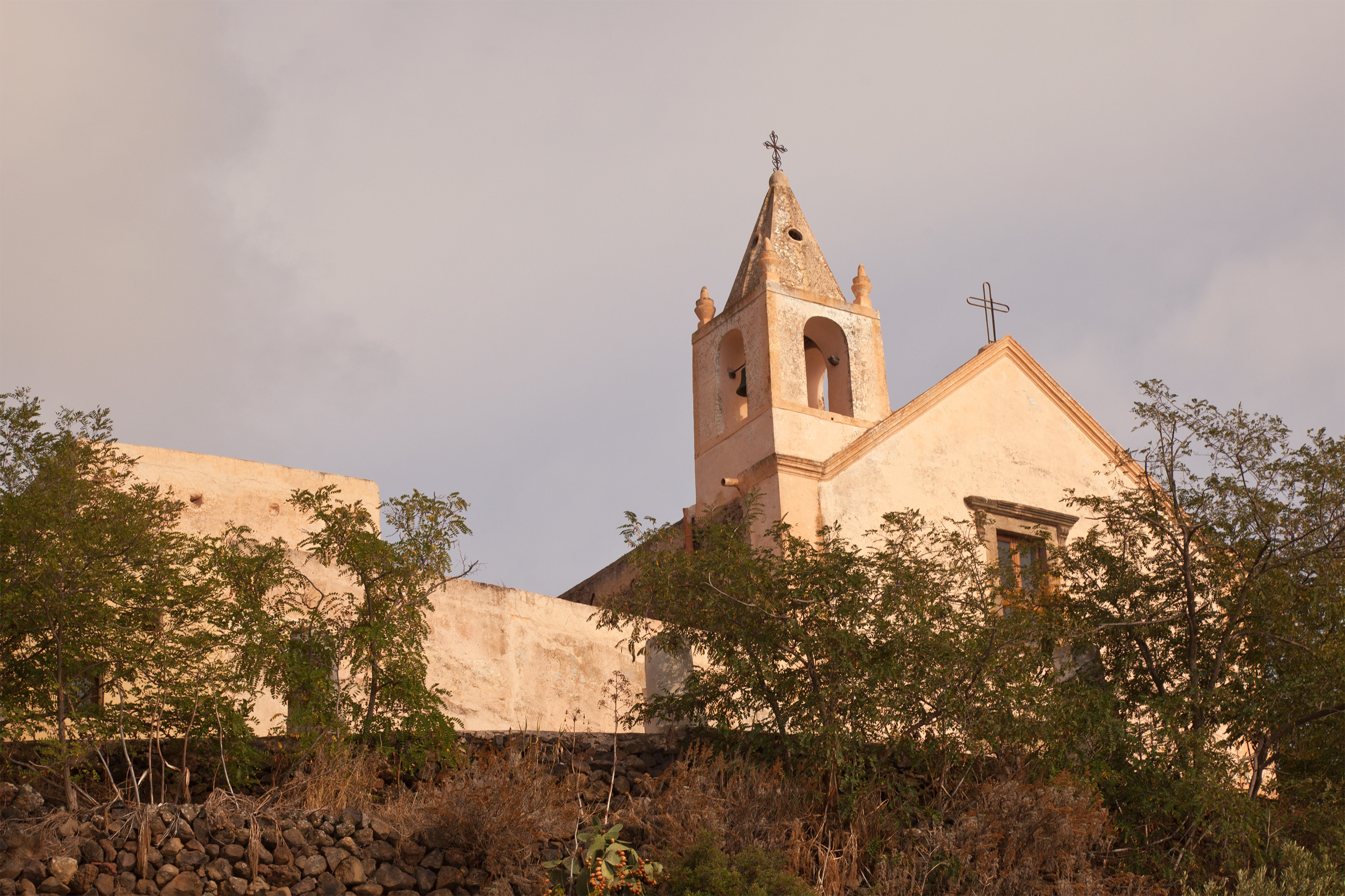 Alicudi (Aeolian Islands), church San Bartolo